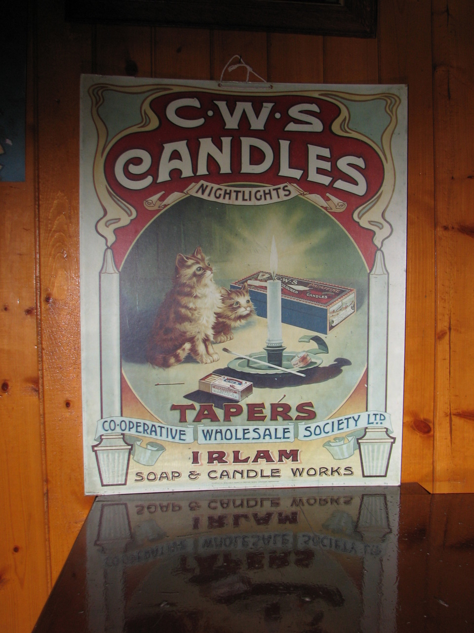 Beamish Museum, County Durham, England. This is a poster for C.W.S brand candles inside the Annfield Plain Industrial Co-Operative Society (general store) in Town. C.W.S. (Co-Operative Wholesale Society) is the Co-Op's own brand.